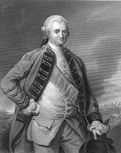 Robert Clive (1725–1774), British general and statesman